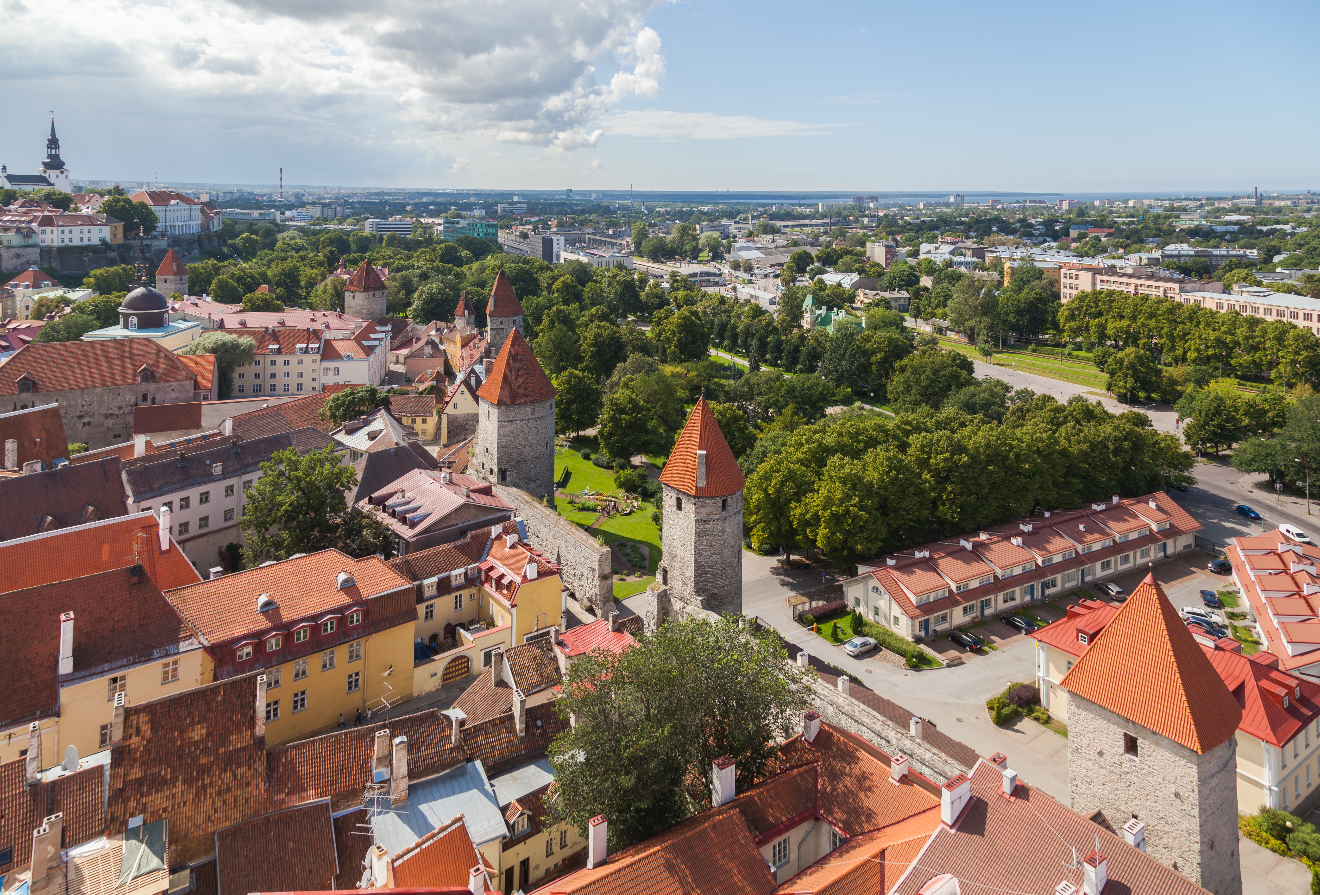 View of Tallinn from St. Olaf's church, Estonia